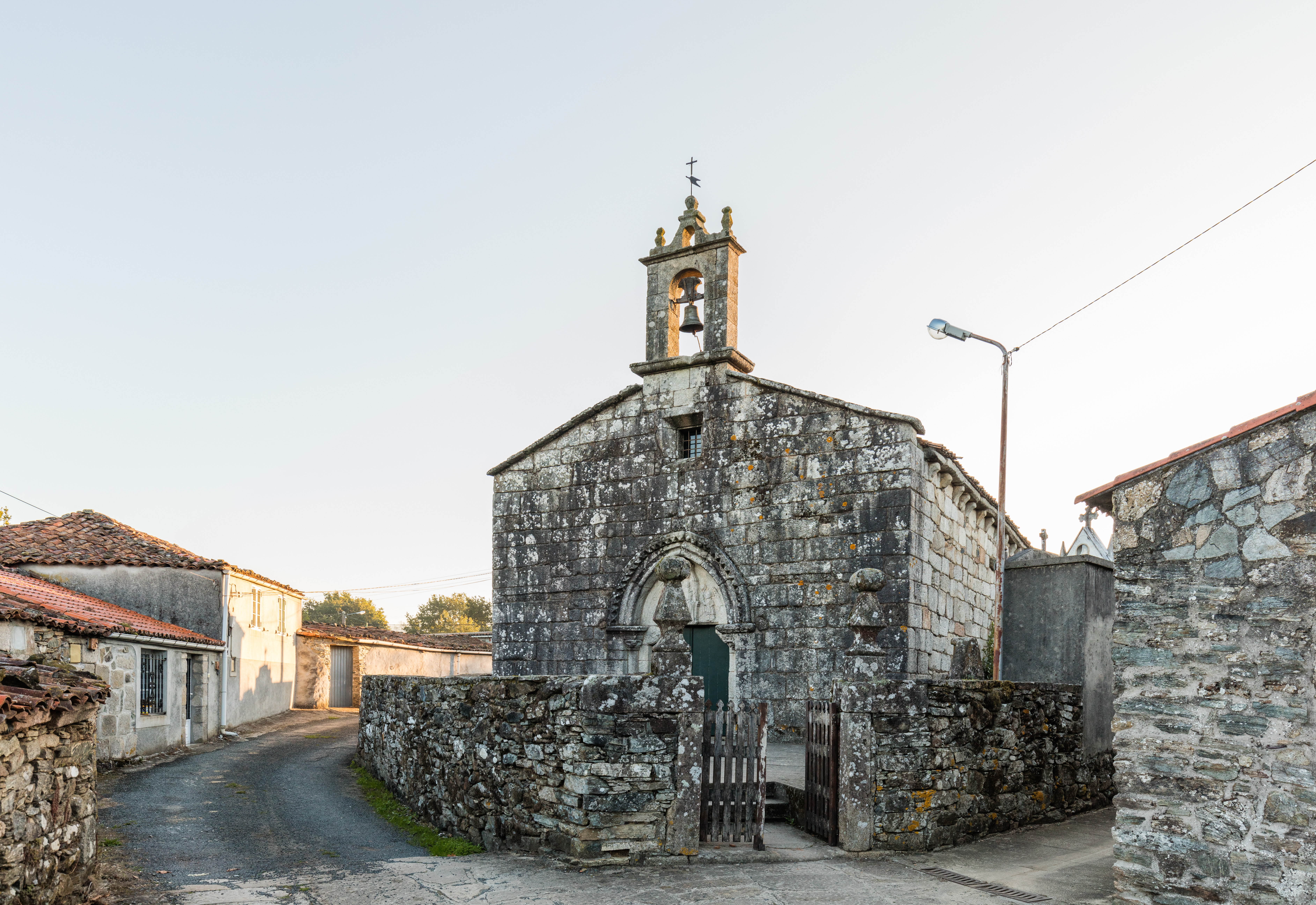 St James's Way, Lugo, Spain